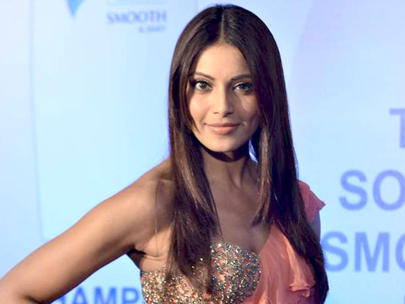 Bipasha appointed as new brand ambassador of Pantene